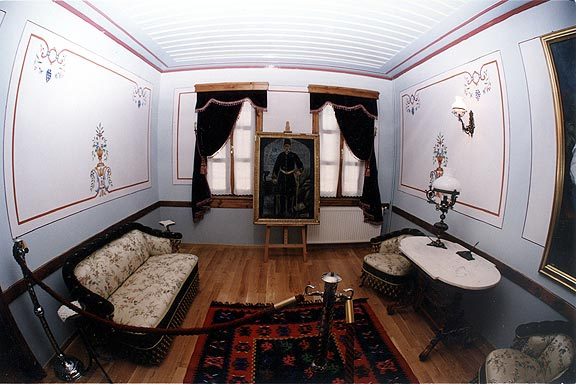 View of the interior, image from the Museum of Gold and Silver -smithery, Folklore, and History, Nymfaio, West Macedonia, Greece